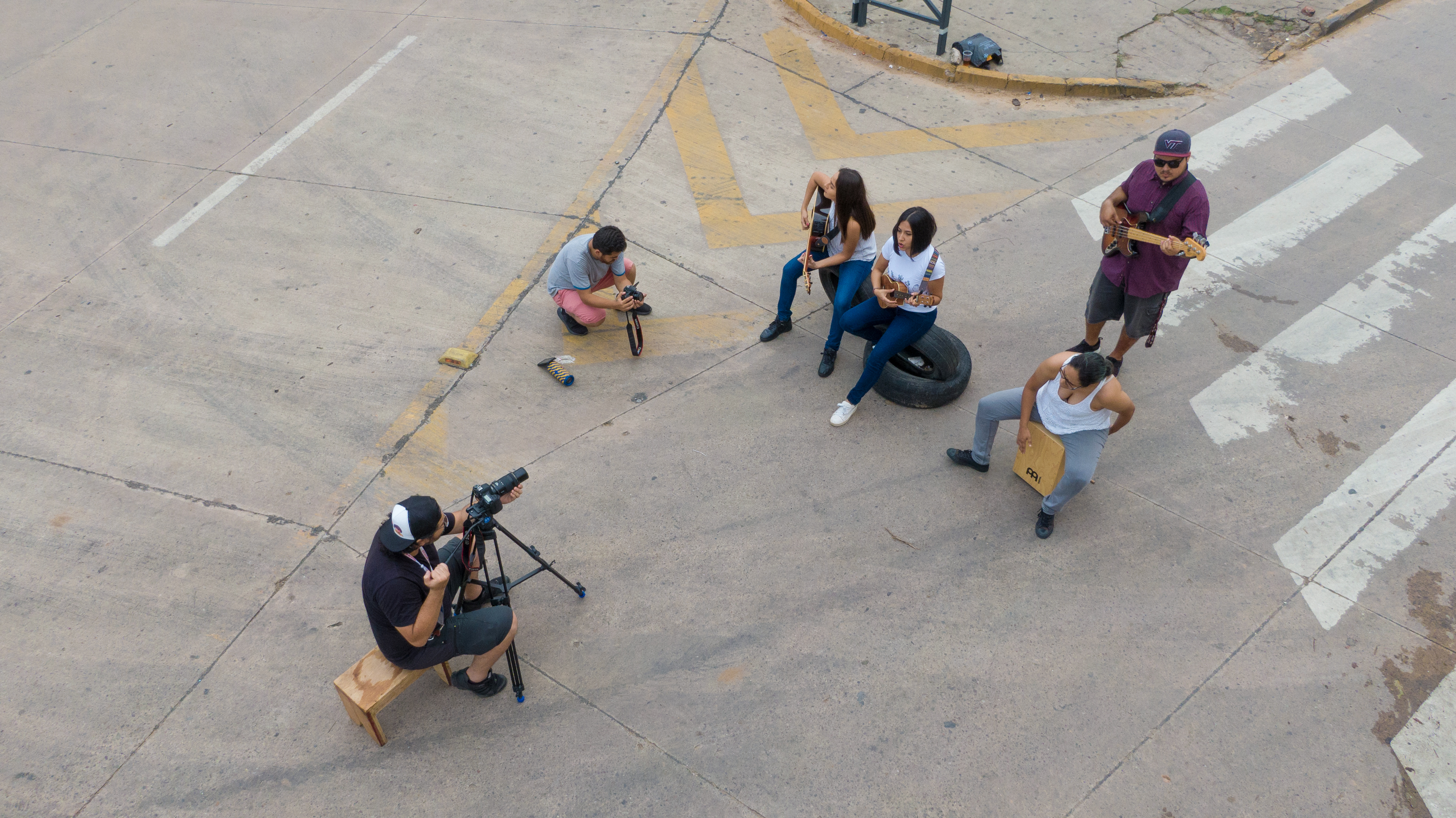 Video Shooting "La Resistencia"